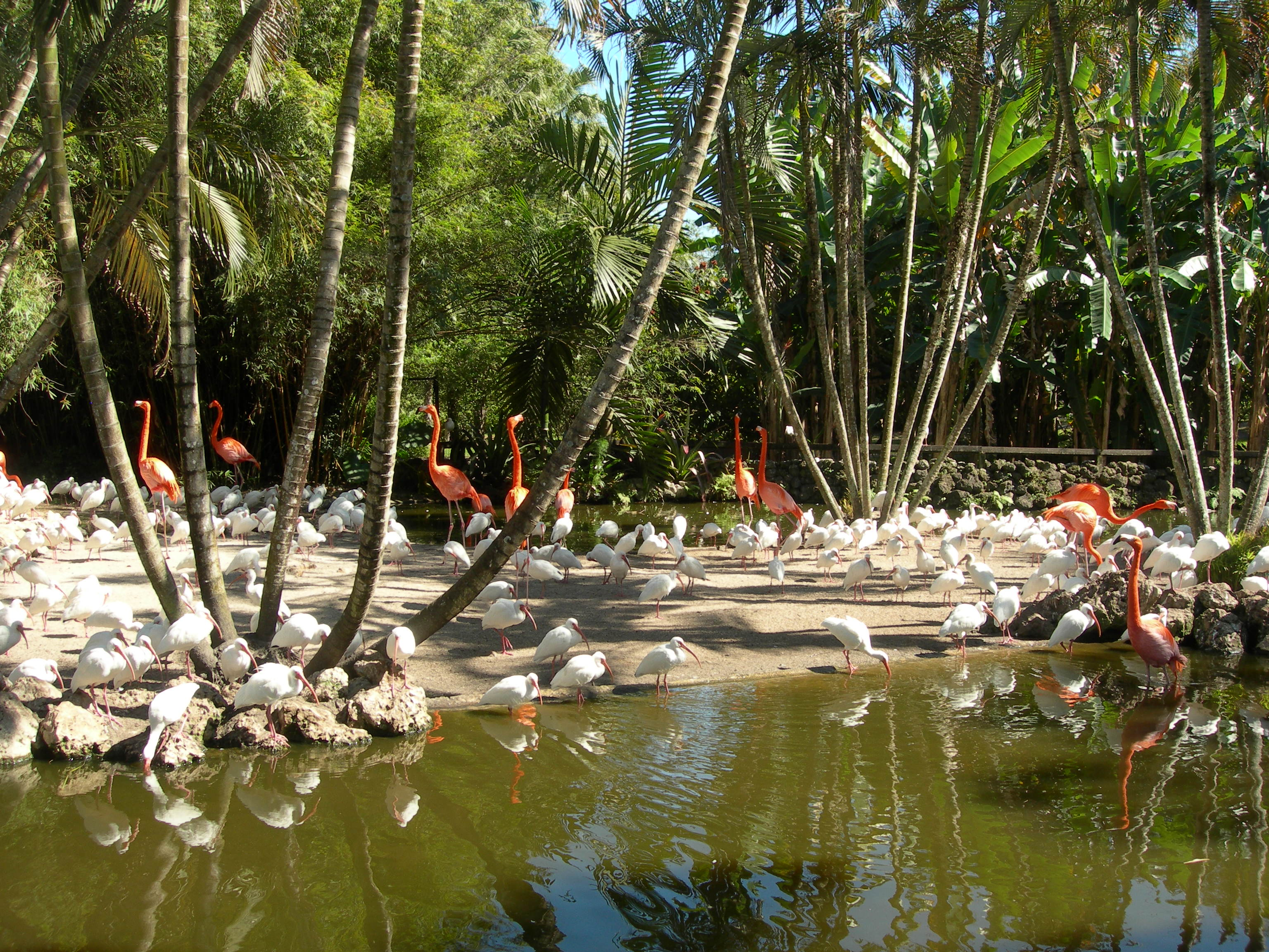 Flamingos and ibises at the Flamingo Gardens in south Florida.